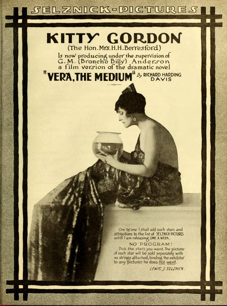 Advertisement in Moving Picture World for the film Vera, the Medium (1917).